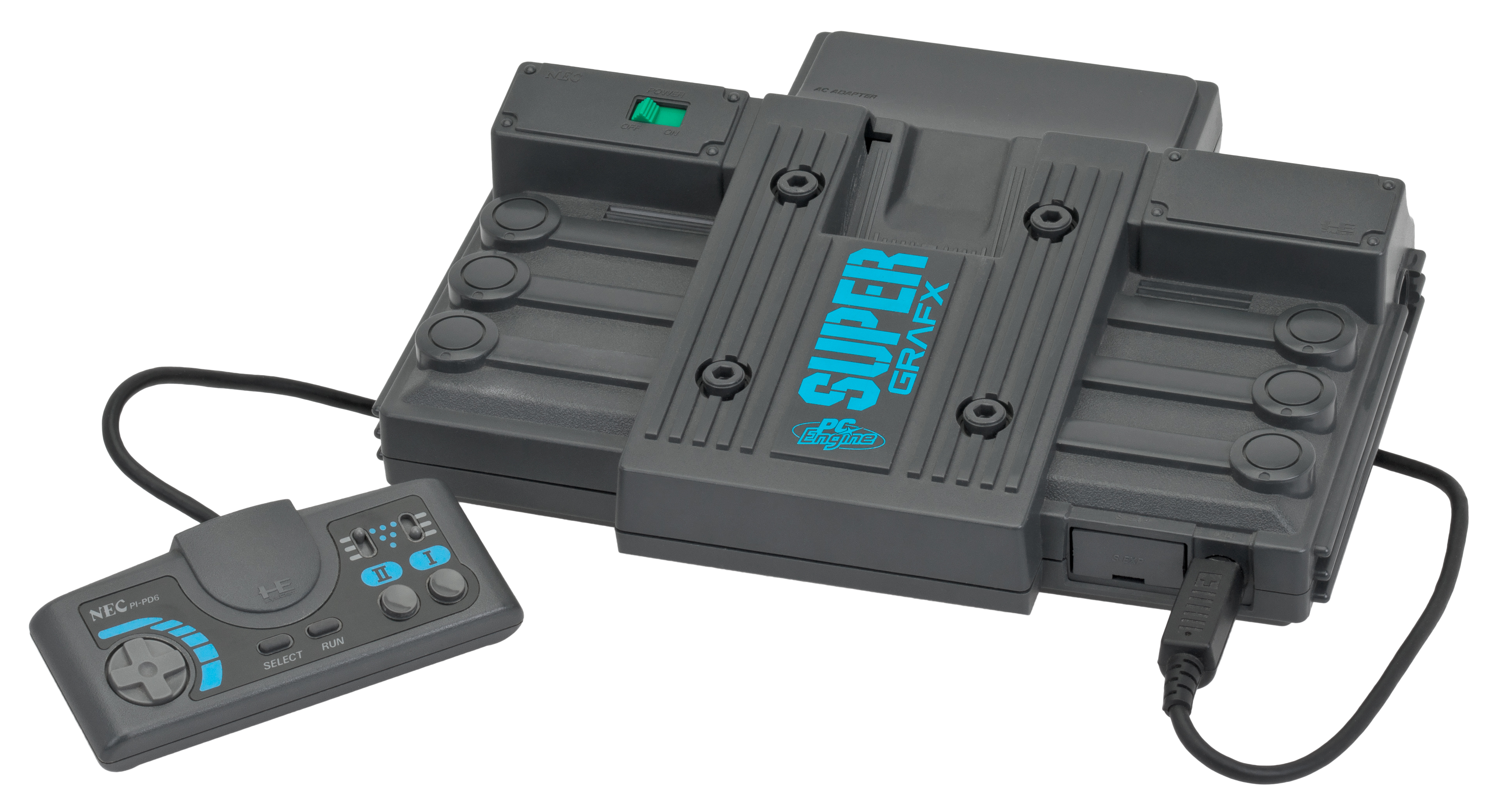 The SuperGrafx, an upgraded version of the PC Engine, that was released in Japan in 1989.